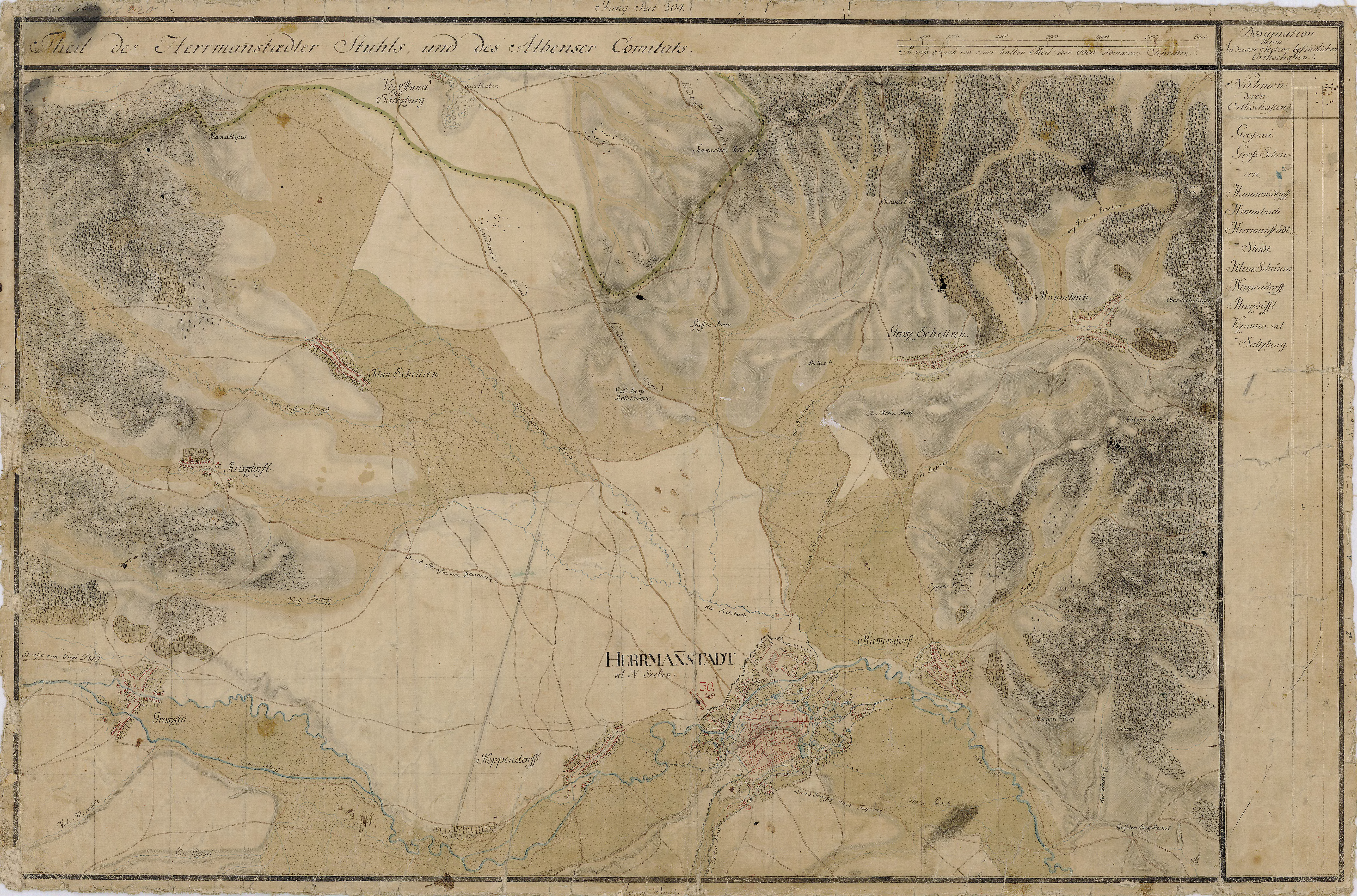 Grand Duchy of Transylvania, 1769-1773. Josephinische Landaufnahme pg.220